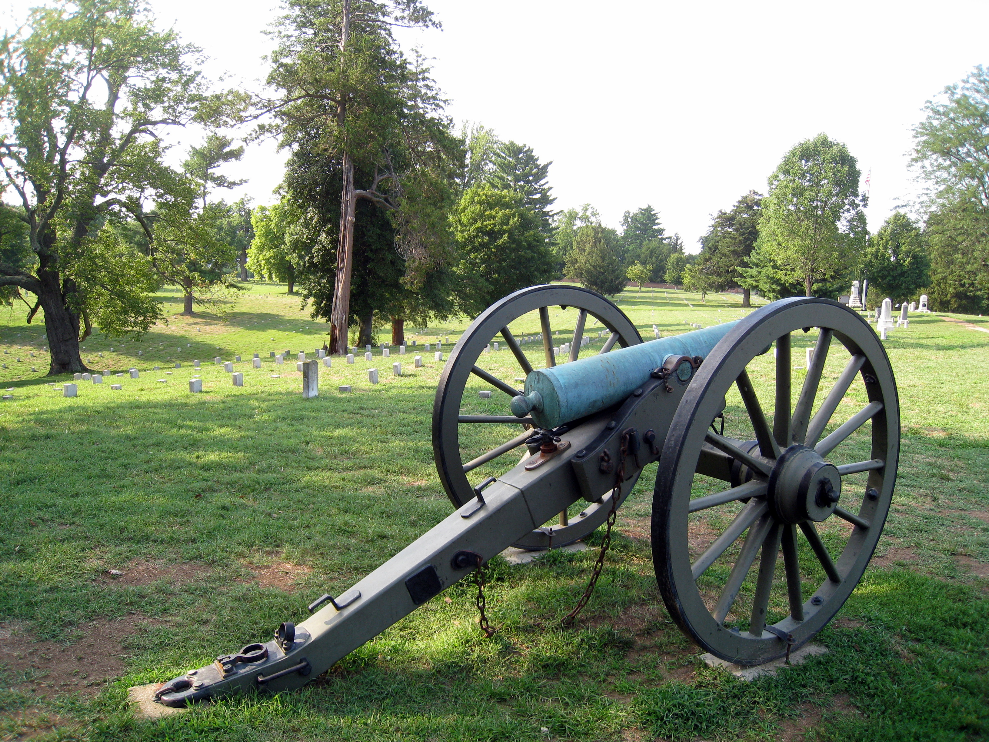 A piece of artillery from the historic Washington Artillery forming part of "Longstreet's Line" on Marye's Heights during the Battle of Fredericksburg. August 2010.